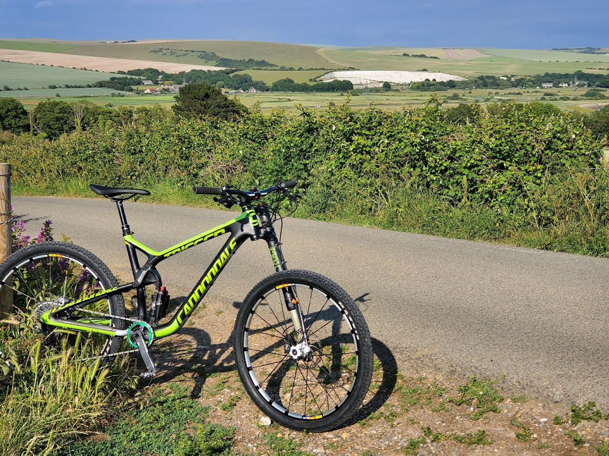 Cannondale's fully carbon Trigger Team XC was the lightest 140mm full suspension mountain bike when it was introduced in 2015.